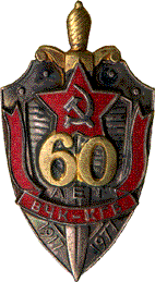 KGB 60years - 1977